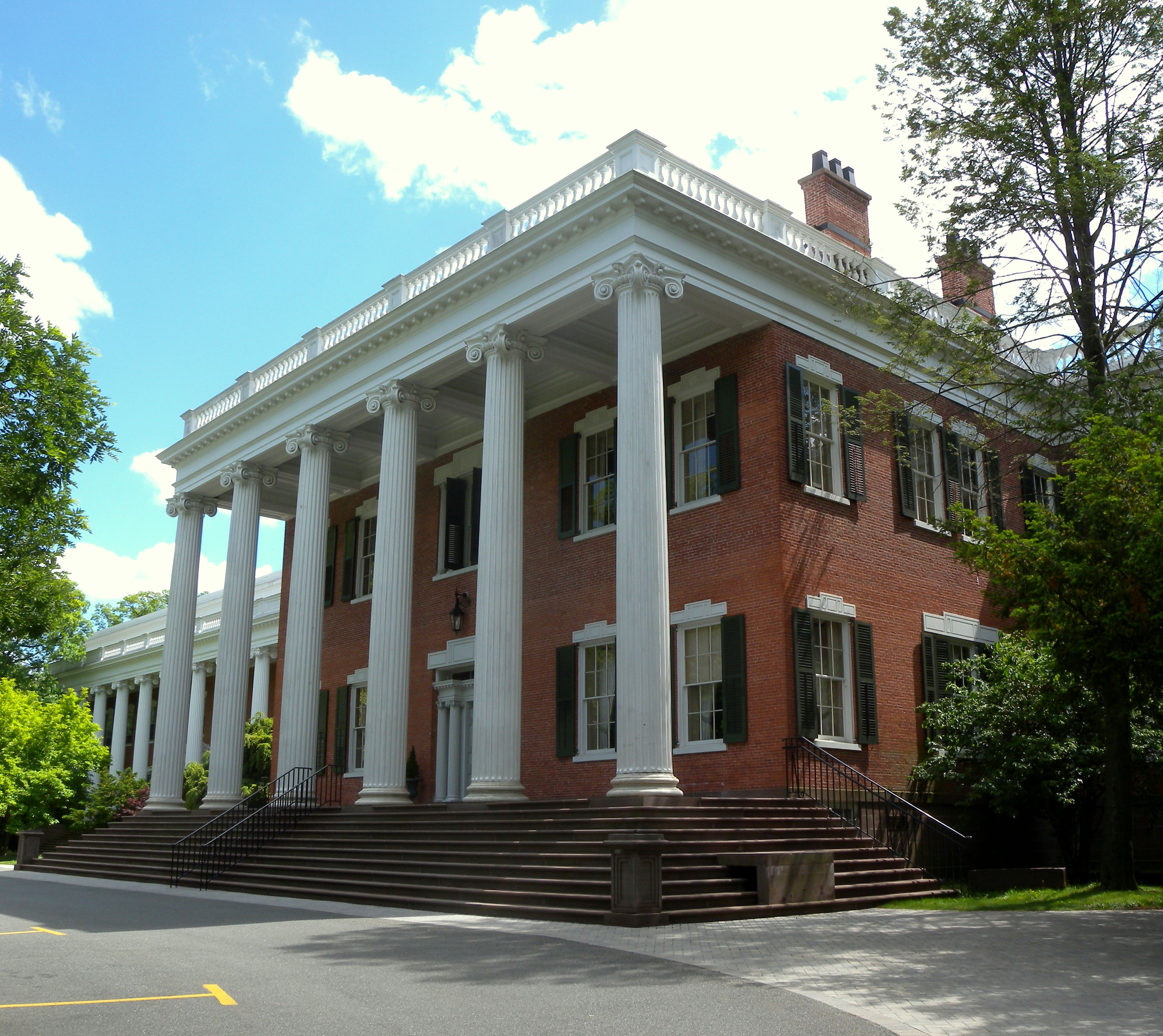 Looking south at Mead Hall, an 1836 Greek Revival house on the Drew University campus, New Jersey, on a mostly sunny early afternoon. See also File:Mead Hall sign Drew U jeh.jpg.